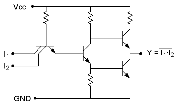 TTL NAND gate